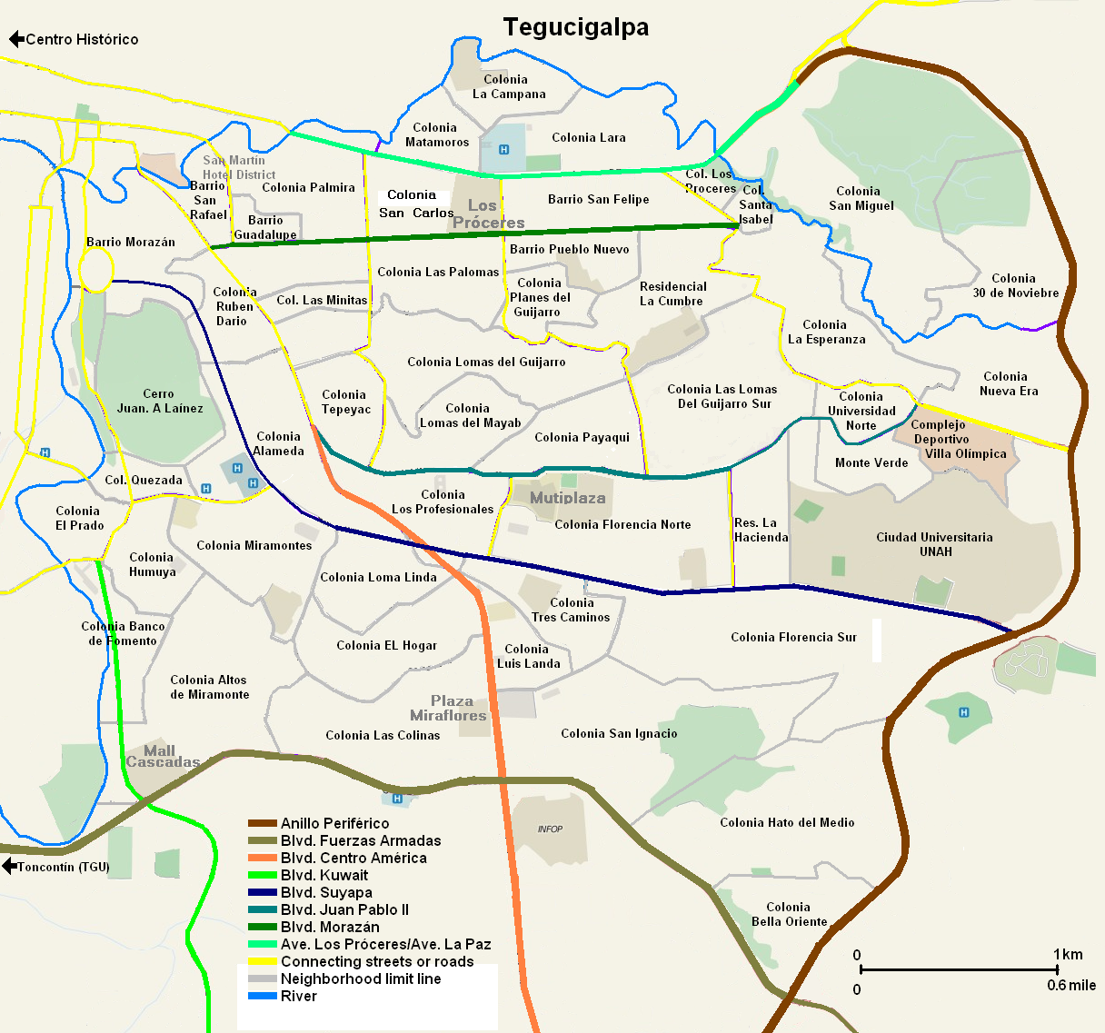 Map of the contemporary area of Tegucigalpa, M.D.C., the capital of Honduras. This area is found east of the Choluteca River, south of the northern tributary (Rio Chiquito), west of Anillo Periférico (beltway), north of Boulevard Fuerzas Armadas (Armed Forces Blvd). This area is considered the capital's vibrant zone (zona viva), holding its most exclusive neighborhoods, its most important boulevards housing important government and financial institutions as well as the city's most popular malls and other businesses.